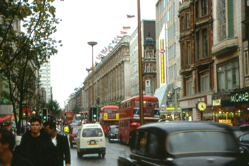 London - Oxford Street and Selfridges 1987